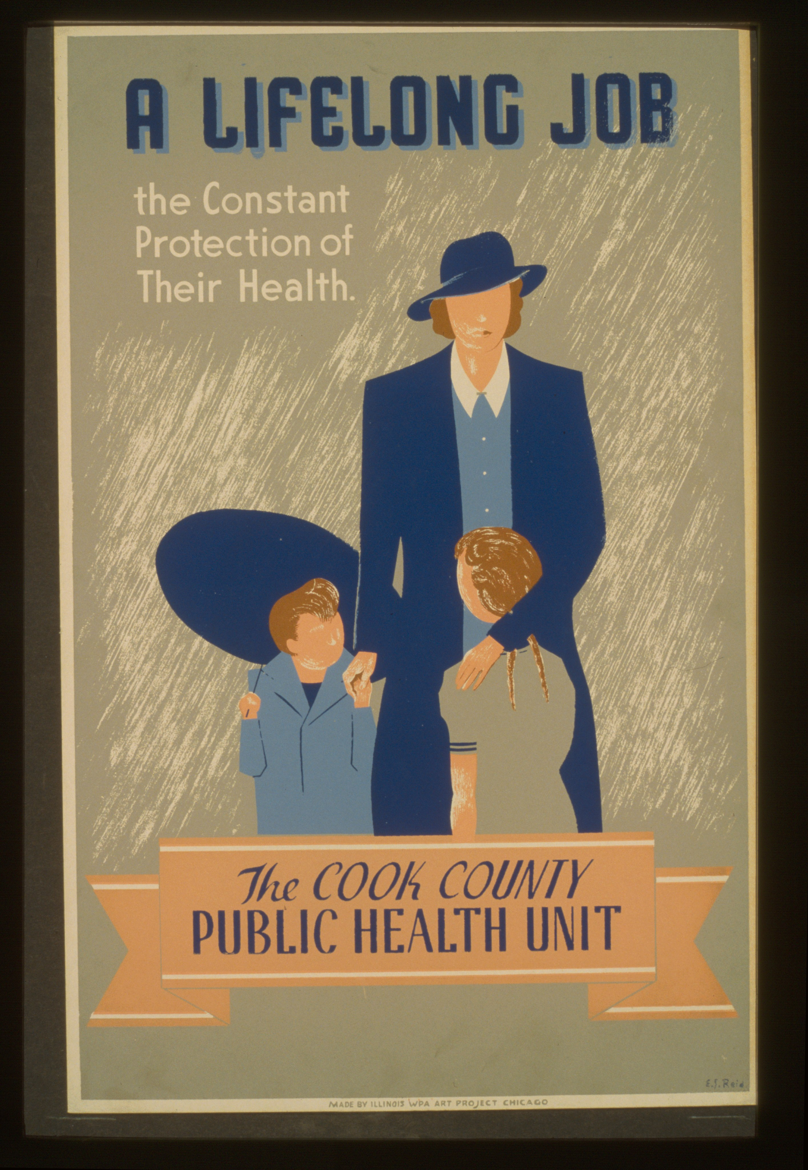 Title: A lifelong job--the constant protection of their health--The Cook County Public Health Unit Abstract: Poster showing a woman and two children in the rain. Physical description: 1 print on board (poster) : silkscreen, color. Notes: Date stamped on verso: Jan 8 1941.; Work Projects Administration Poster Collection (Library of Congress).; E.S. Reid.